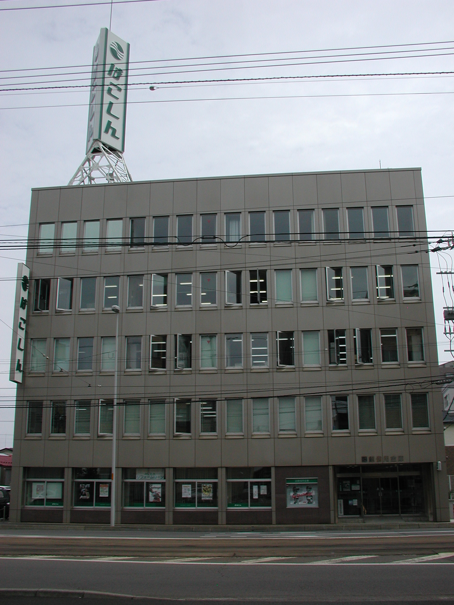 The Hakodate Shinkin Bank Head Shops